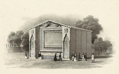 Yhe first Pantomime Rheatre in Tivoli Gardens in Copenhagen, Denmark